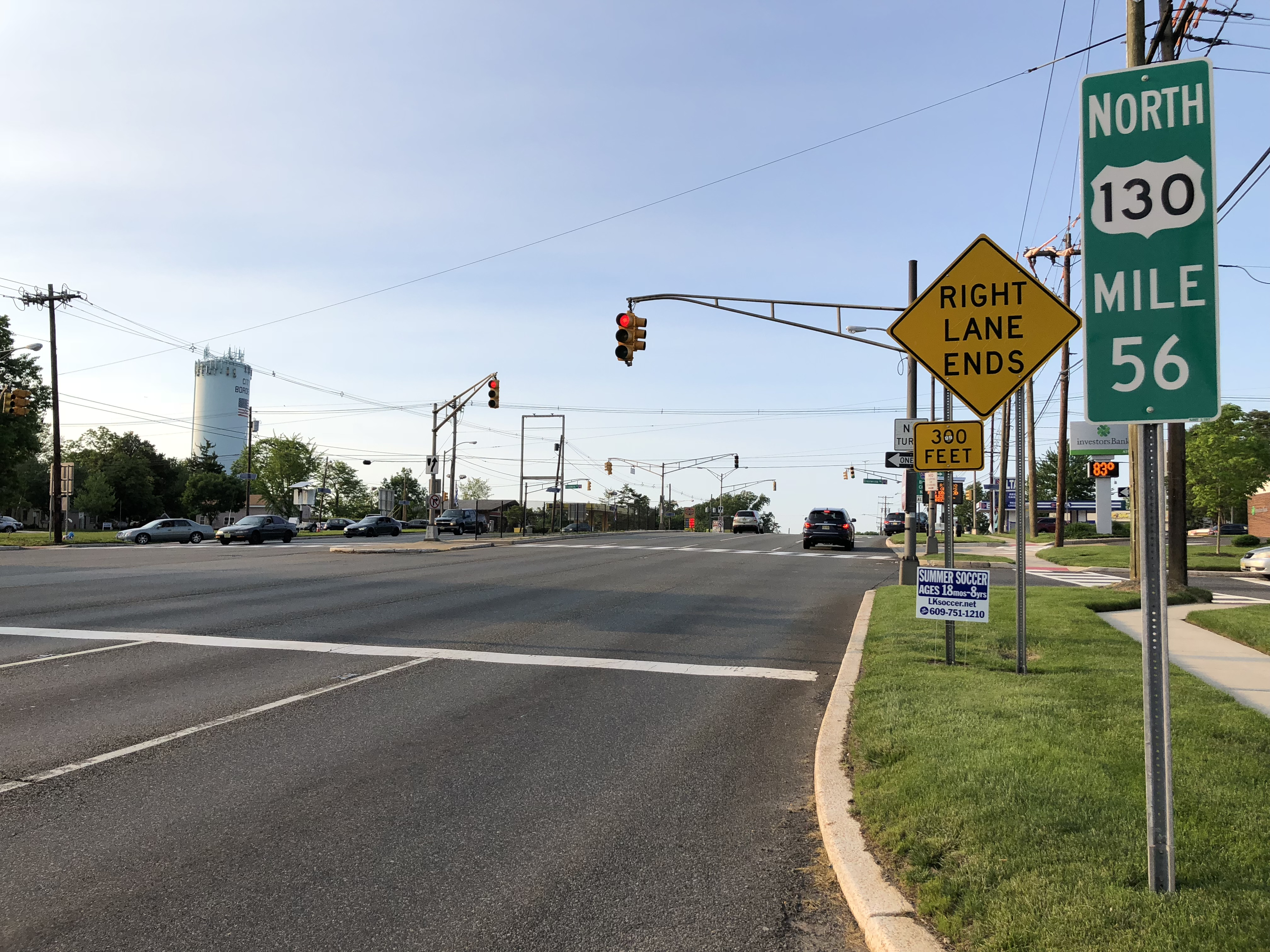 View north along U.S. Route 130 and U.S. Route 206 at Burlington County Route 528 (Crosswicks Street) in Bordentown, Burlington County, New Jersey